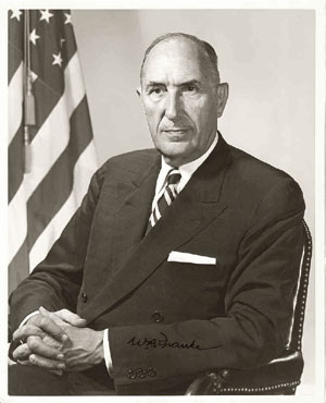 Willima B. Franke, Secretary of the Navy